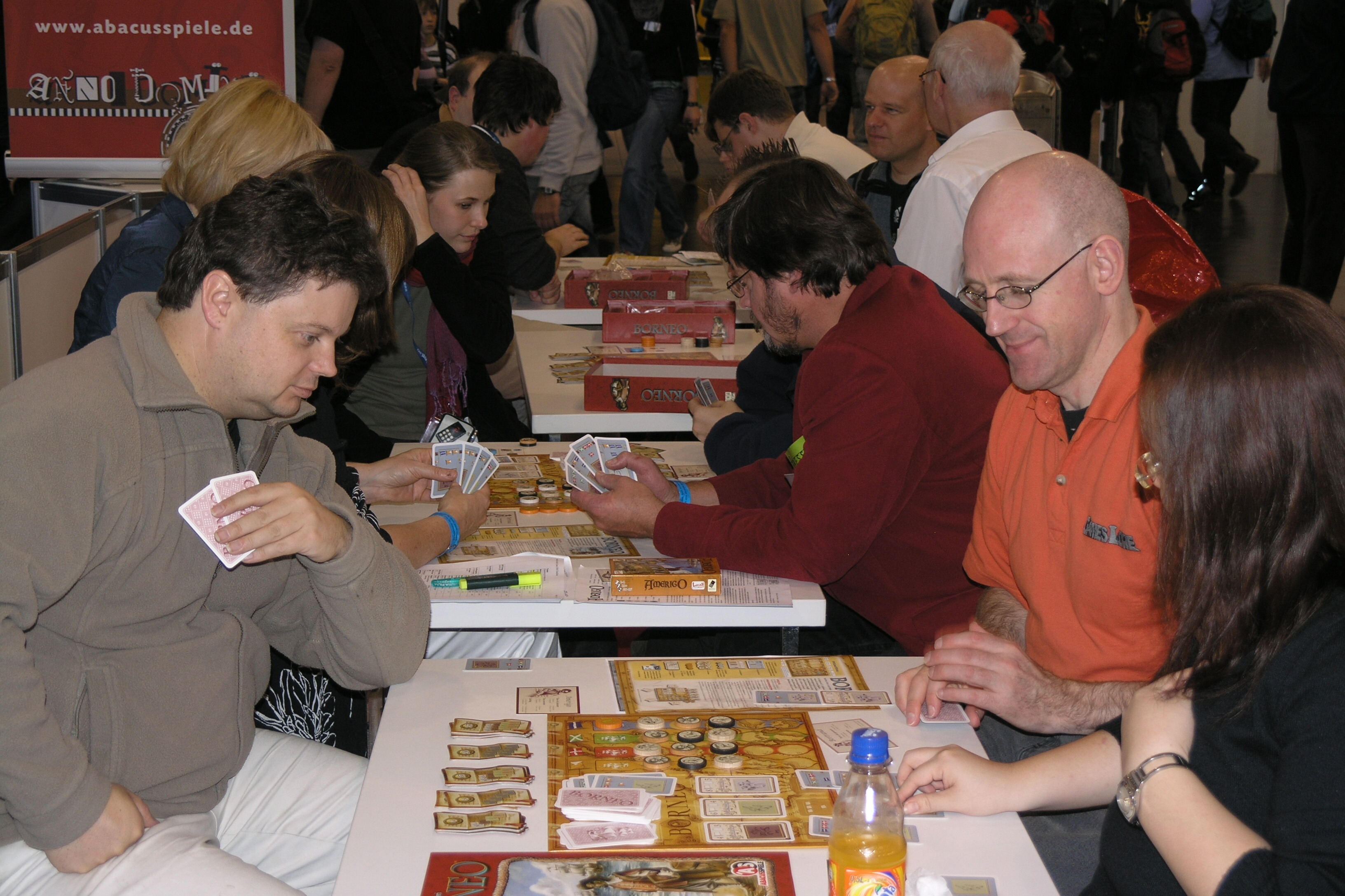 Personality rights warning Although this work is freely licensed or in the public domain, the person(s) shown may have rights that legally restrict certain re-uses unless those depicted consent to such uses. In these cases, a model release or other evidence of consent could protect you from infringement claims.